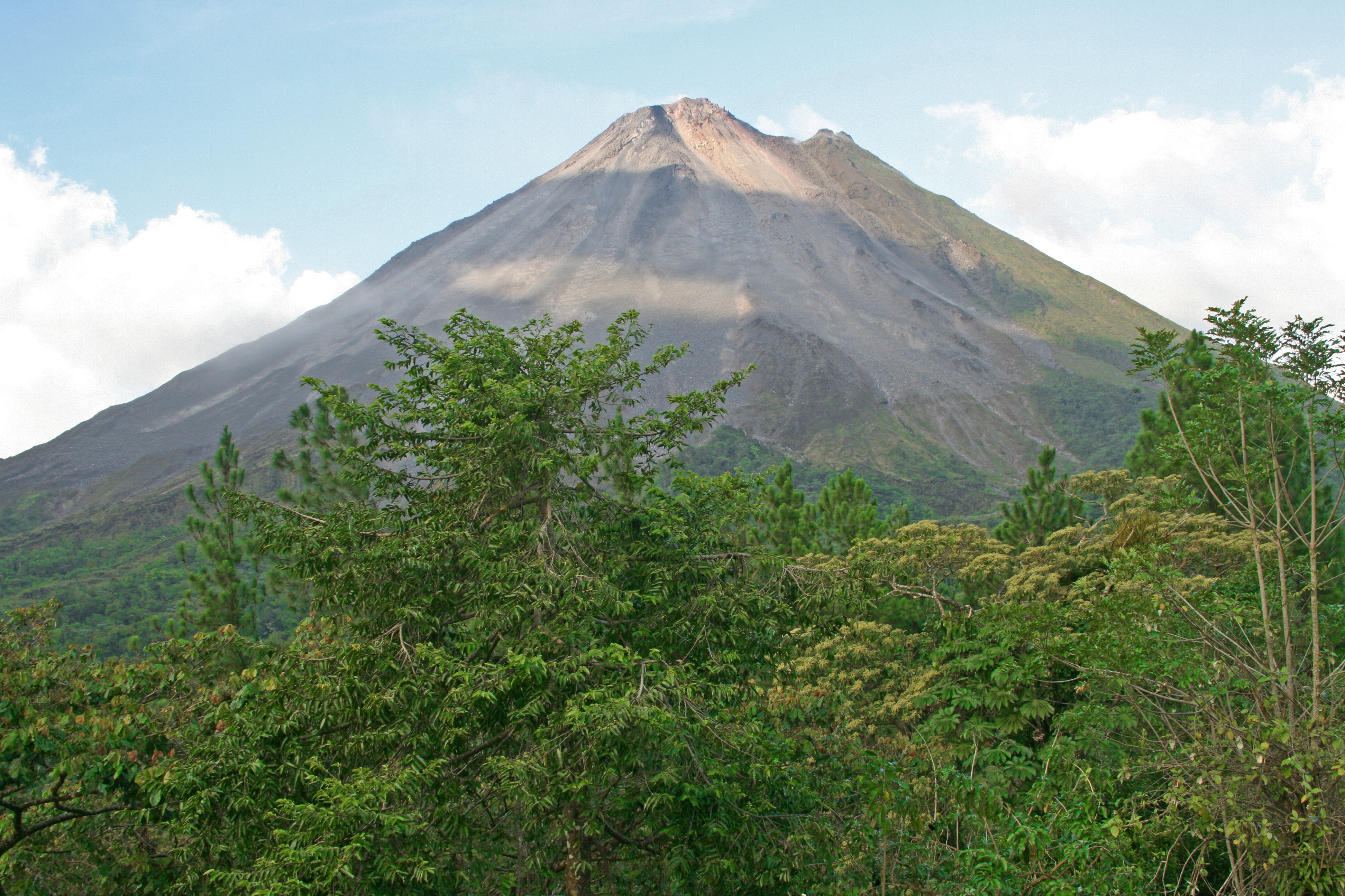 Volcan Arenal, Costa Rica, from the observatory/hotel.